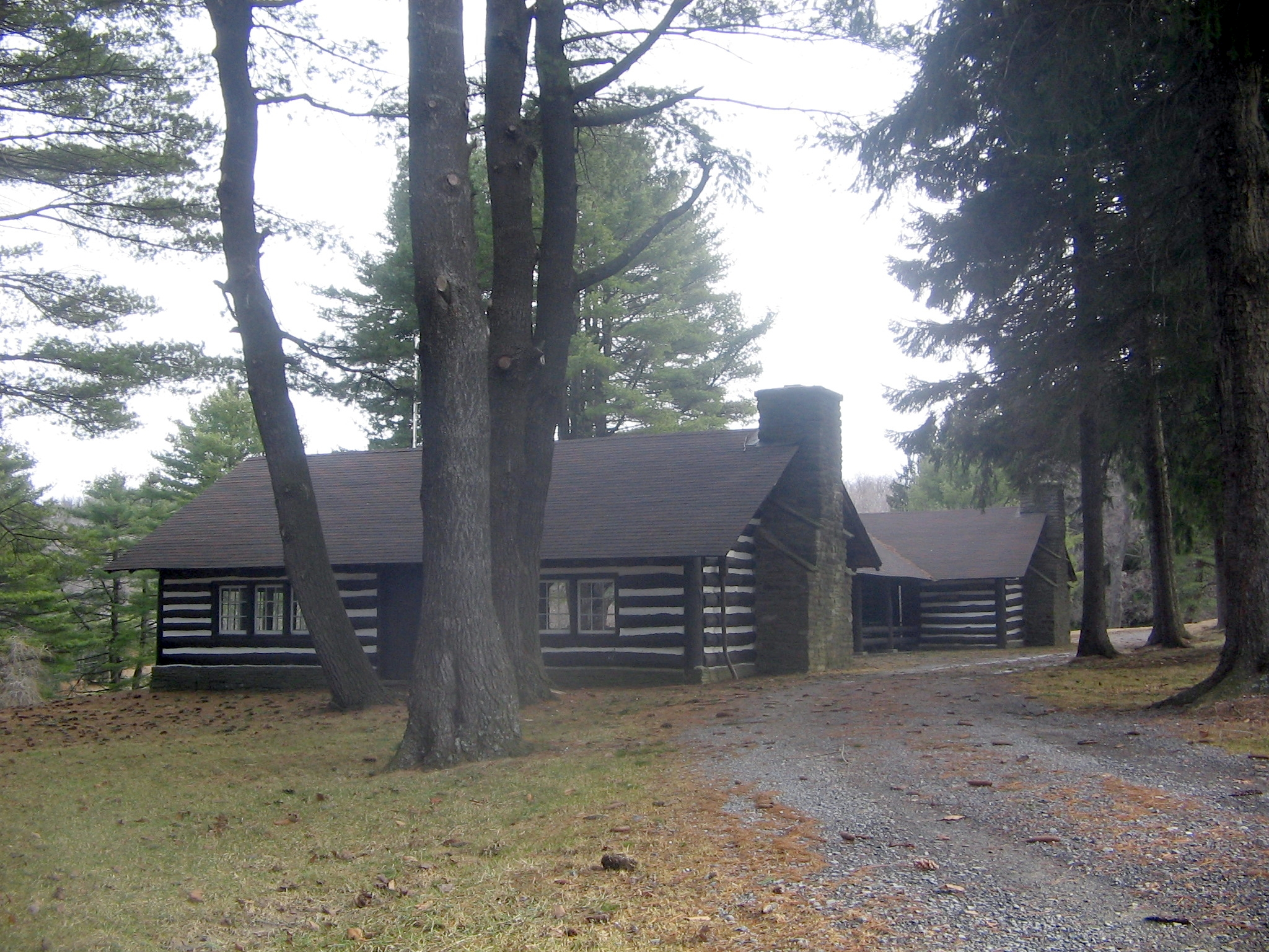 Side and rear of Civilian Conservation Corps-built picnic pavilion at Cherry Springs State Park, West Branch Township, Potter County, Pennsylvania, USA. Listed on the National Register of Historic Places. View from the PA Route 44 side.